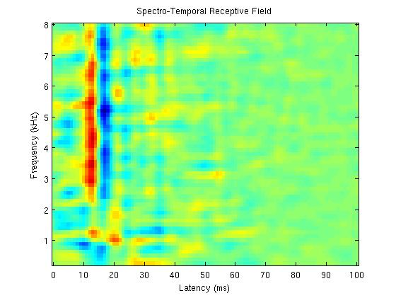 I am an auditory neuroscientist. The STRF from this neuron came from my lab; I calculated it.